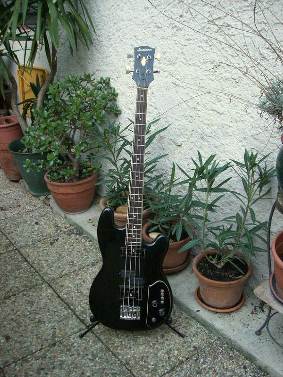 Jacobacci JB200 bass guitar (early 1970s)